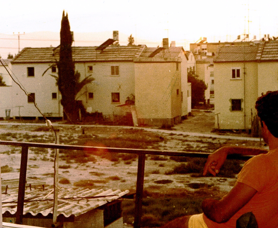 Neighborhood in Beit Shean, Behind the Histadrut Street Photography from 1975 to 1980